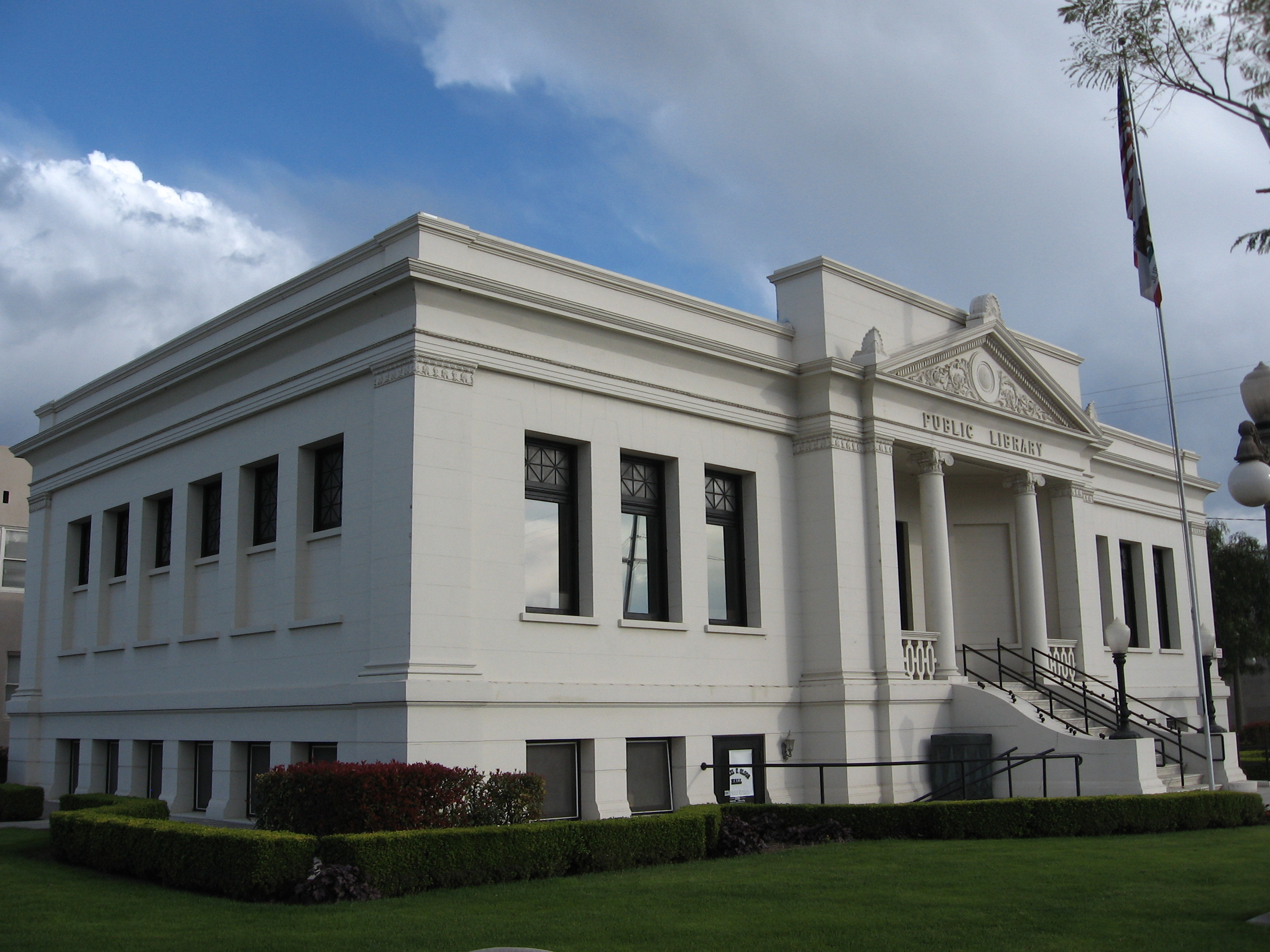 1908 Carnegie library, now home to Colton Area Museum